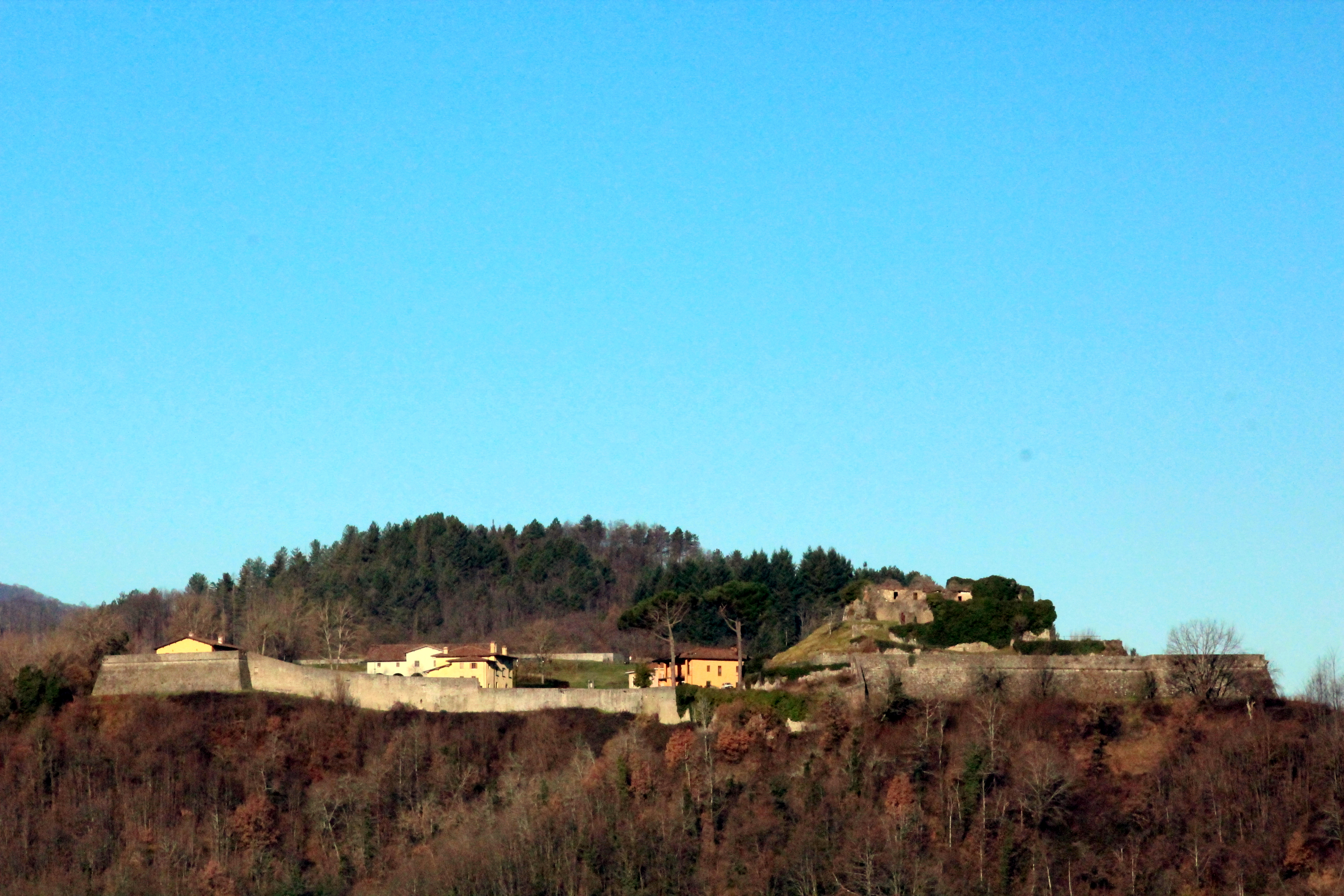 Fortress Fortezza di Mont'Alfonso (Monte Alfonso, Montalfonso), Castle above Castelnuovo di Garfagnana, Province of Lucca, Tuscany, Italy